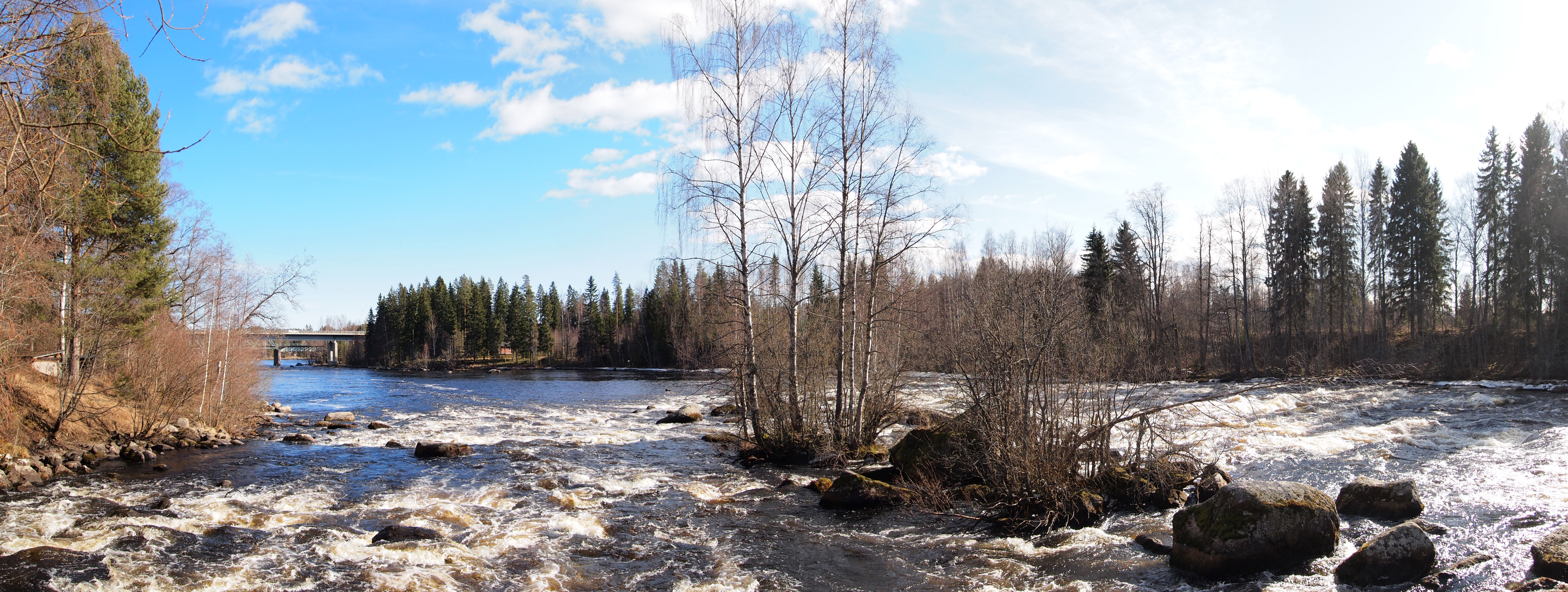 View from a small dock to rapid Kuusankoski in Kuusa village, Laukaa.